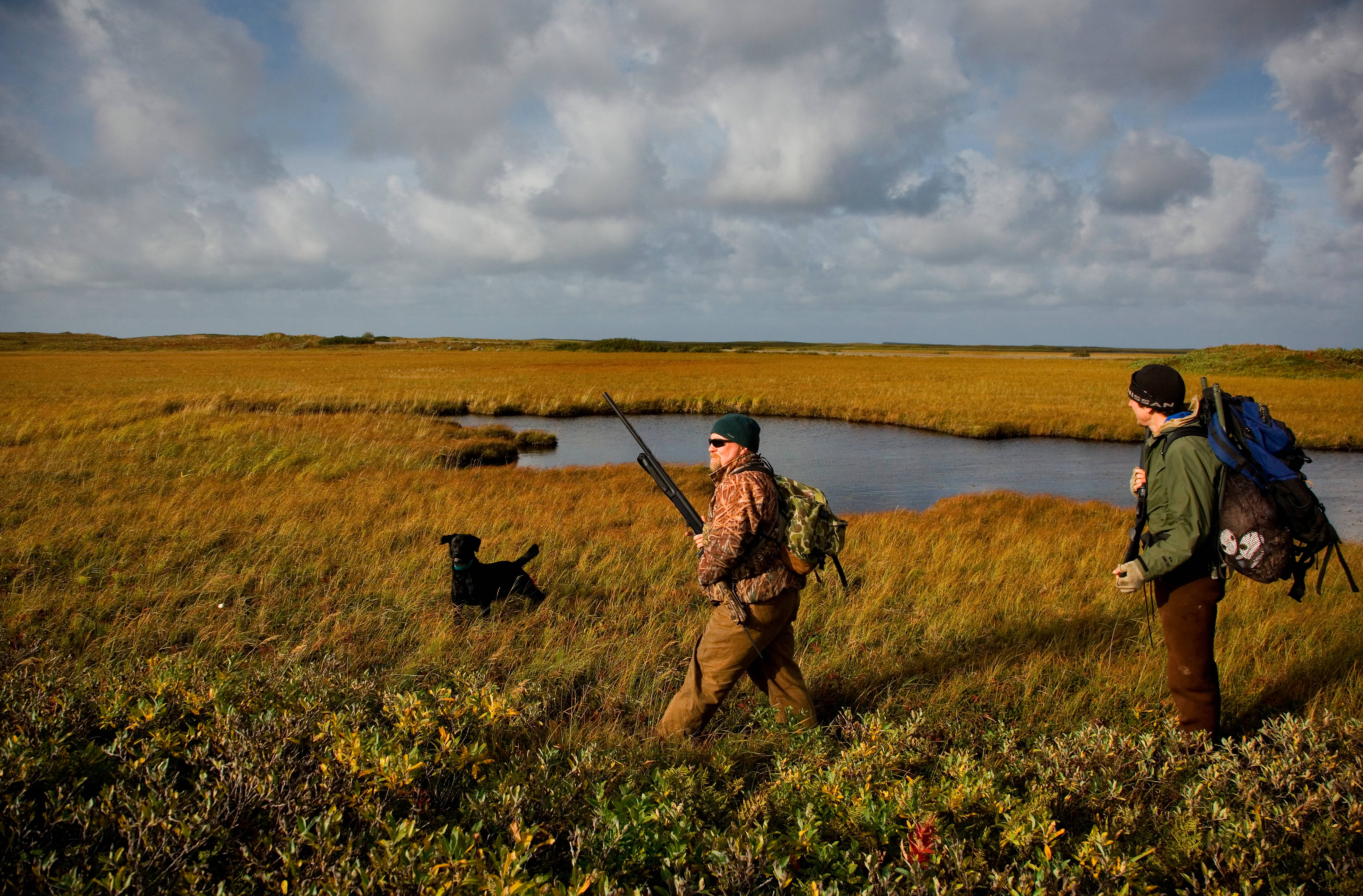 Photo credit: USFWS/Ryan Hagarty Hunting, fishing, and other wildlife-related recreation in the United States (an example of provisioning and cultural services) is estimated to contribute $122 billion to our nation’s economy annually